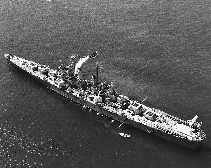 The U.S. Navy light cruiser USS Cleveland (CL-55) with her crew paraded on deck for Captain's inspection, 28 March 1944. She was then serving in the Southwest Pacific area.